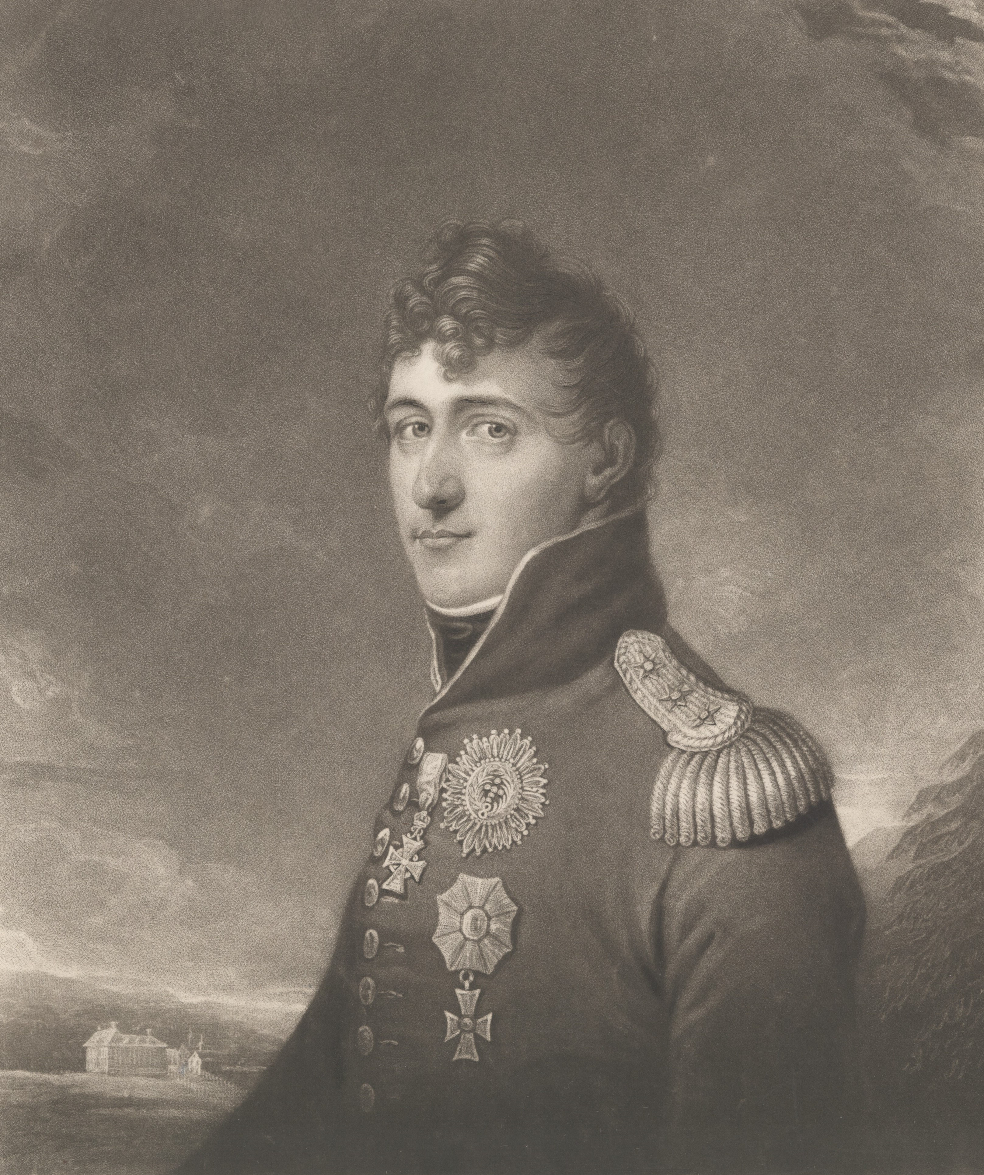 A portrait of prince Christian Frederik of Denmark, the later king Christian VIII. Commissioned by Carsten Anker, London, 1814. Norsk (bokmål): Prins Christian Frederik av Danmark, den senere kong Christian VIII. Utgitt av Carsten Anker, London 1814.